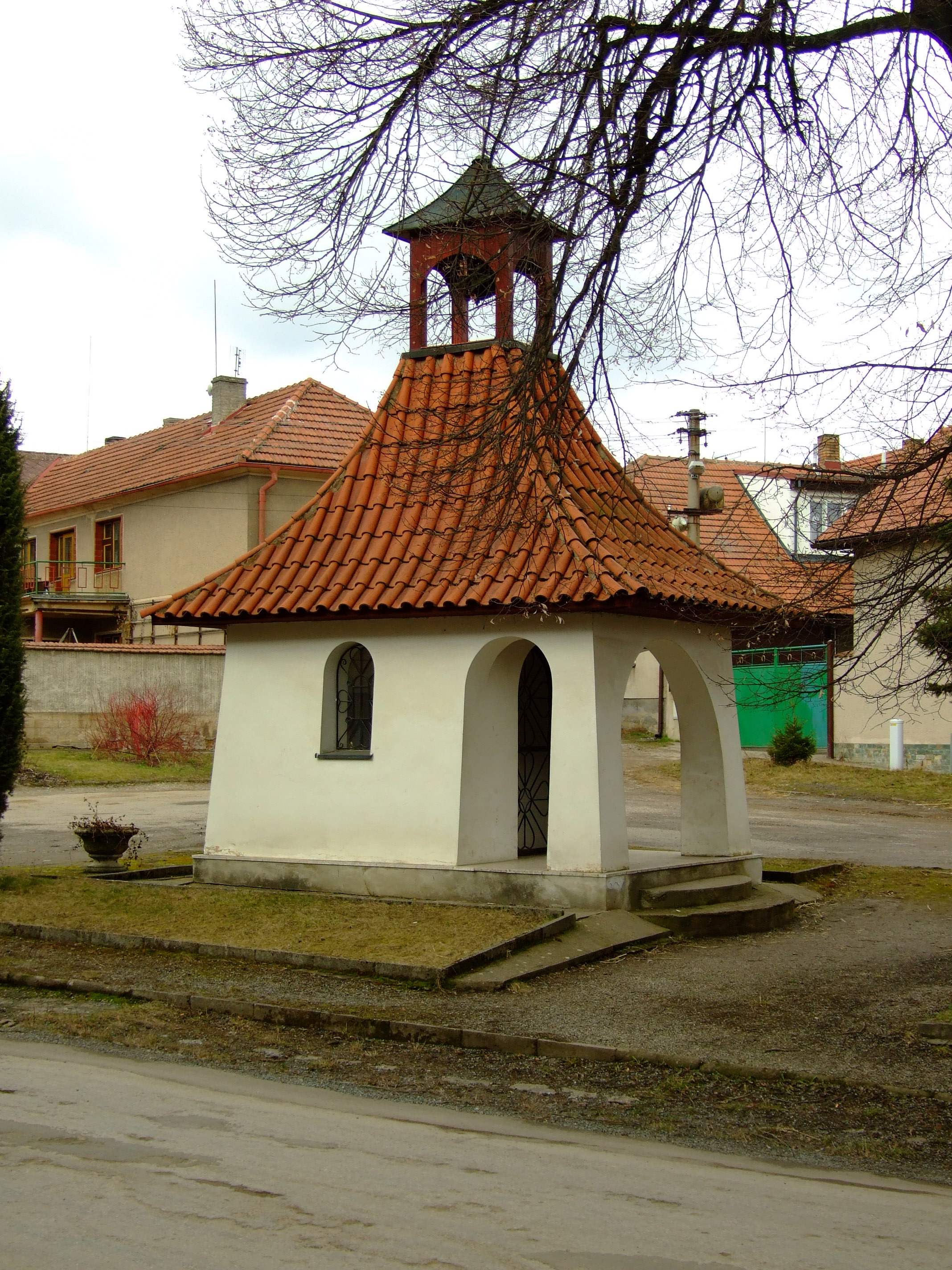 Town Ptice and surrounding nature in Central Bohemian region, CZhelp